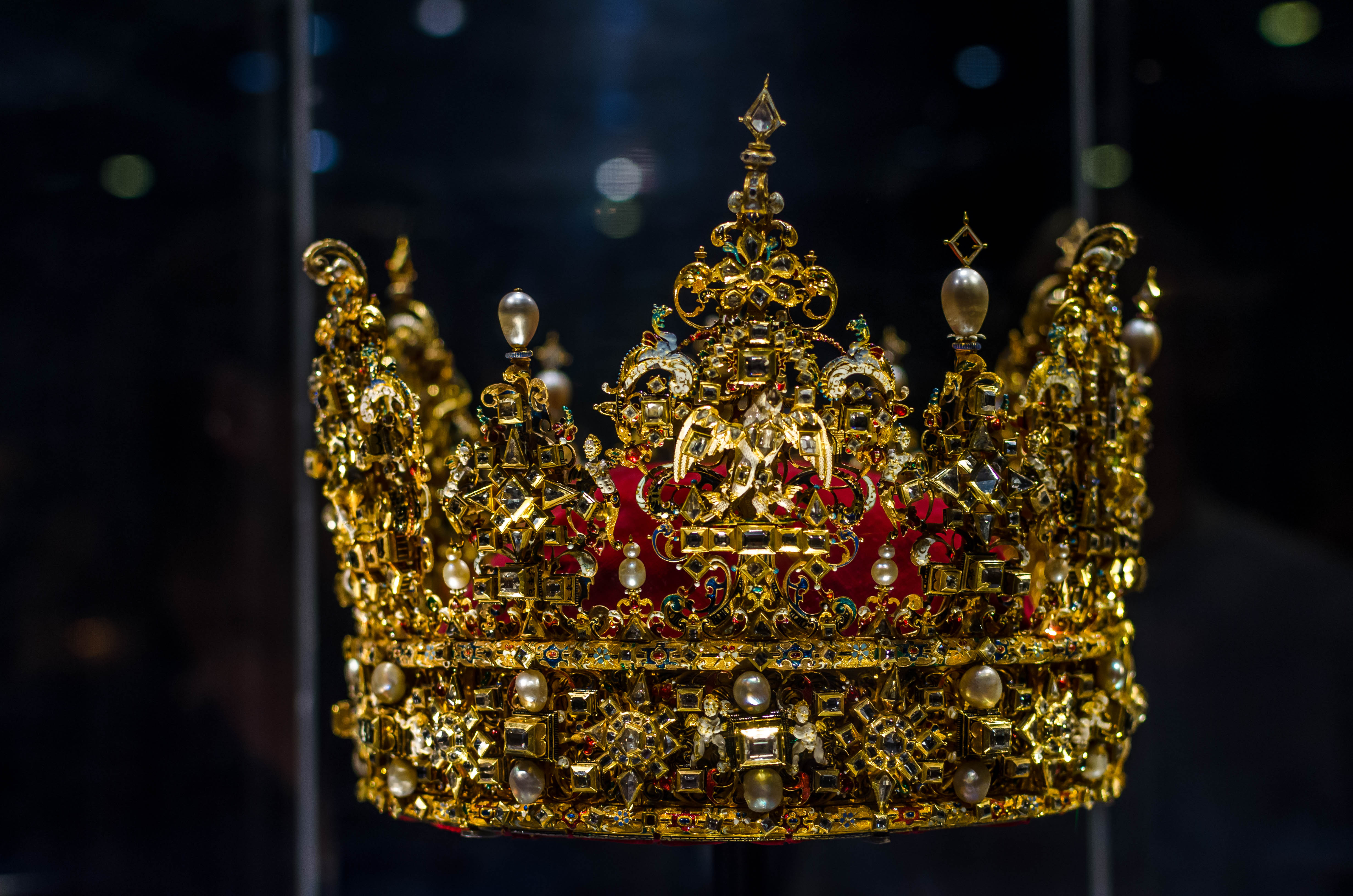 Crown of King Christian IV of Denmark in the Schatzkammer of Rosenborg Castle, Copenhagen, Denmark.